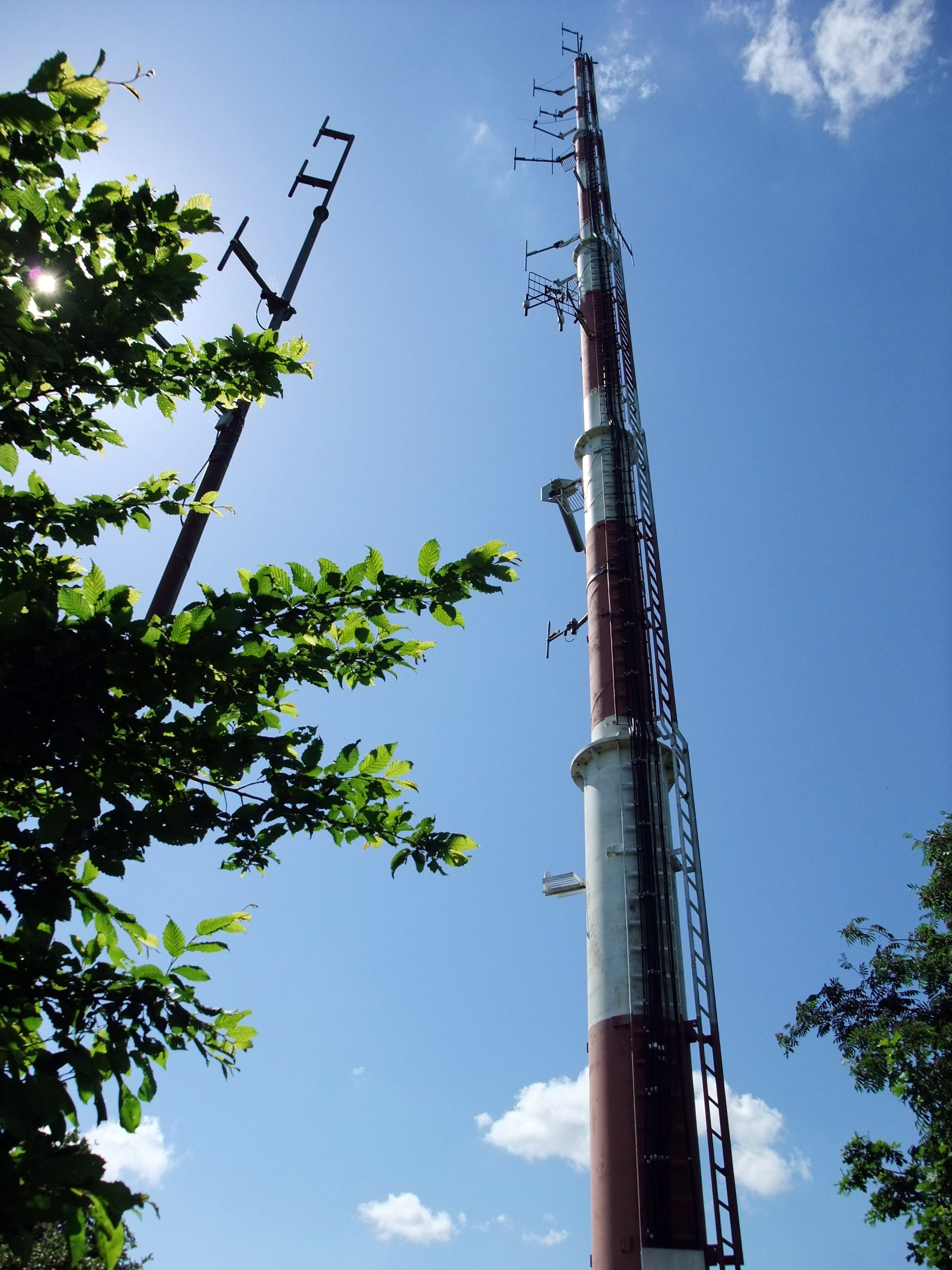 Transmitter mast in Wehrshausen, Marburg